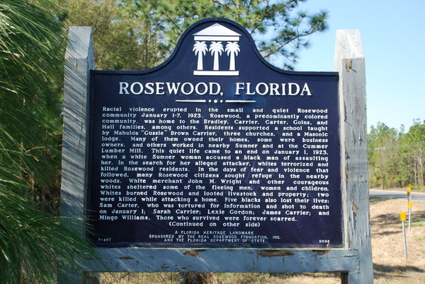 Rosewood sign, front.